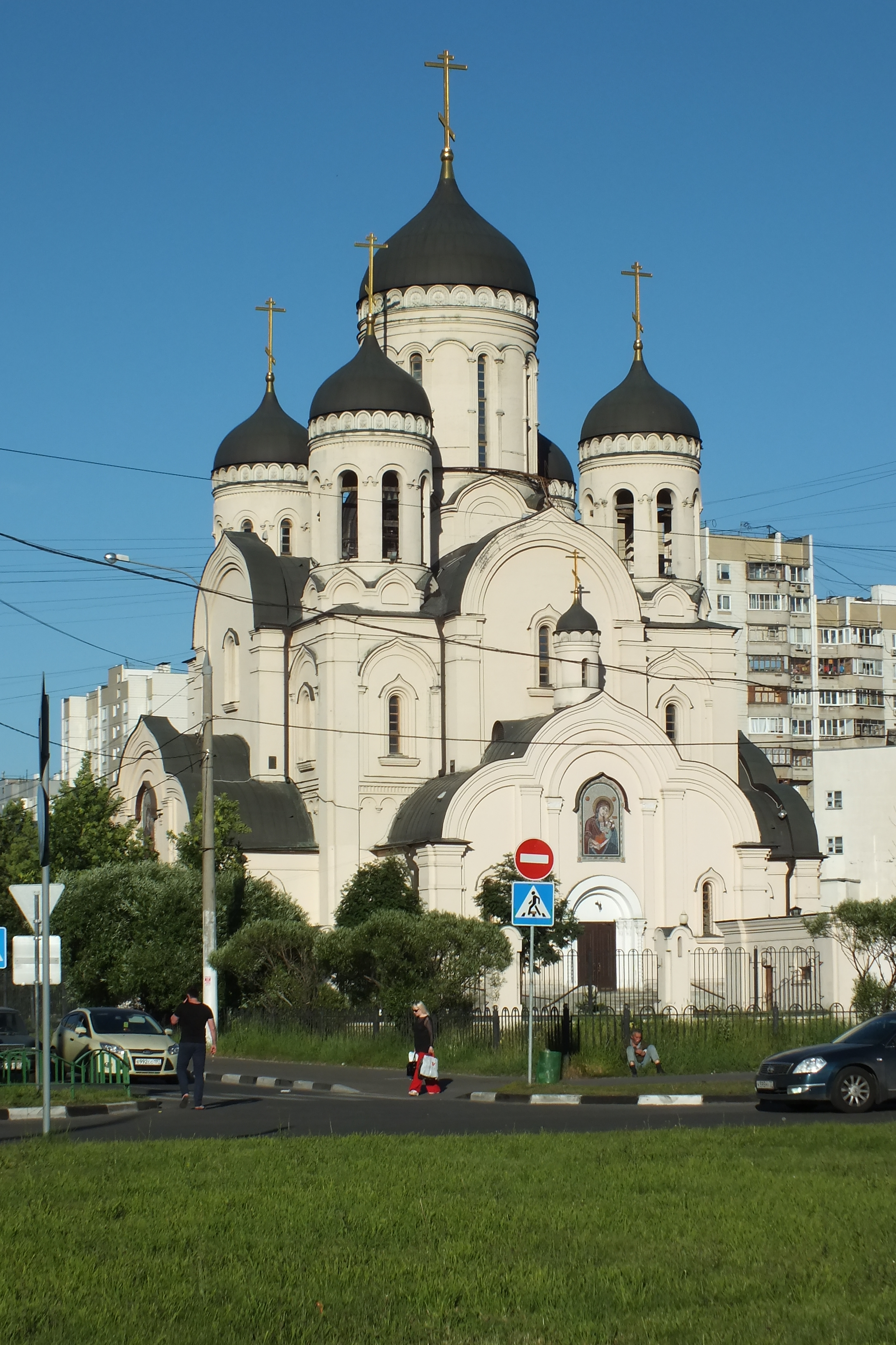 Church of the Theotokos Soothe My Sorrows in Maryino